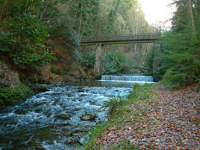 Glen Helen - Isle of Man. Footbridge over the River Neb.